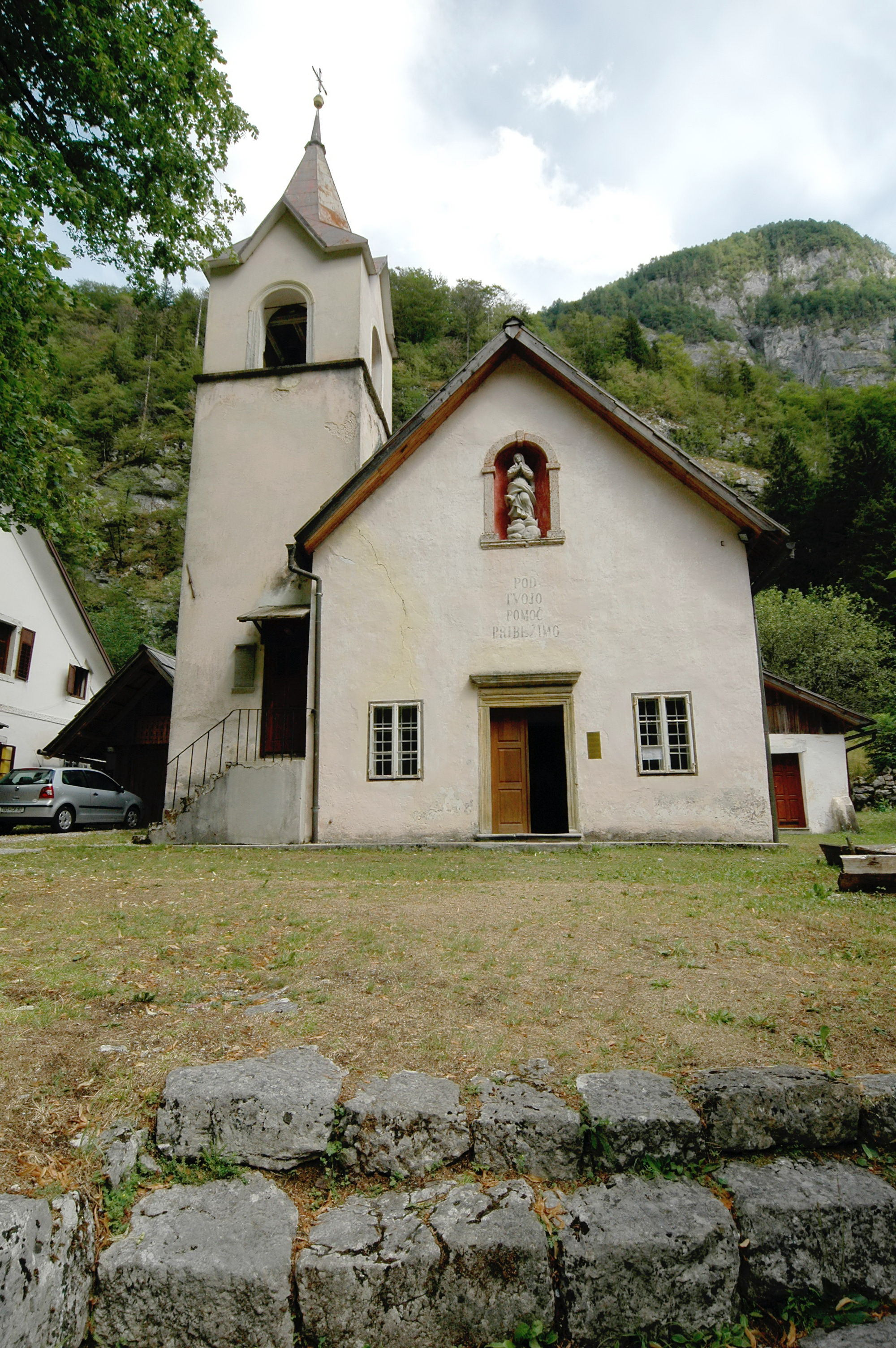 Church Saint Madonna of Loreto on the upper part of the Soča valley, Pri Cerkvi, Trenta, Slovenija, EU